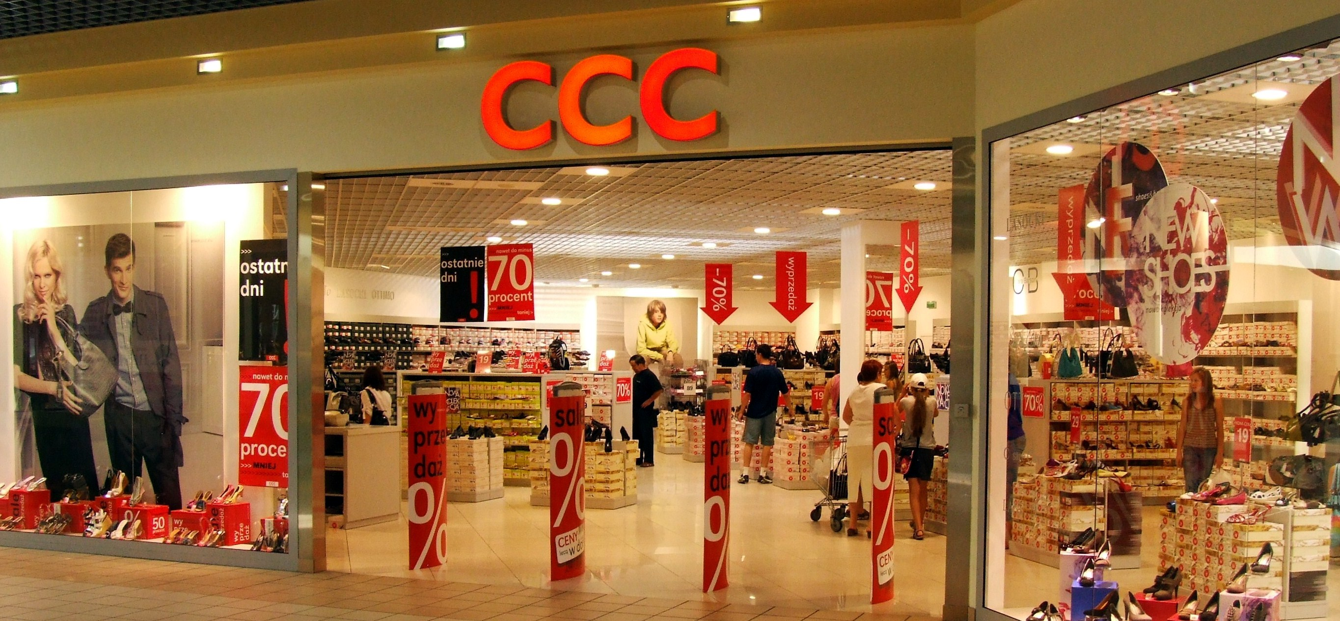 CCC store in Galeria Ostrowiec shopping centre in Ostrowiec Swietokrzyski